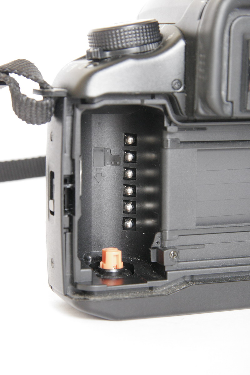 film cartidge dx-code reader by canon eos30